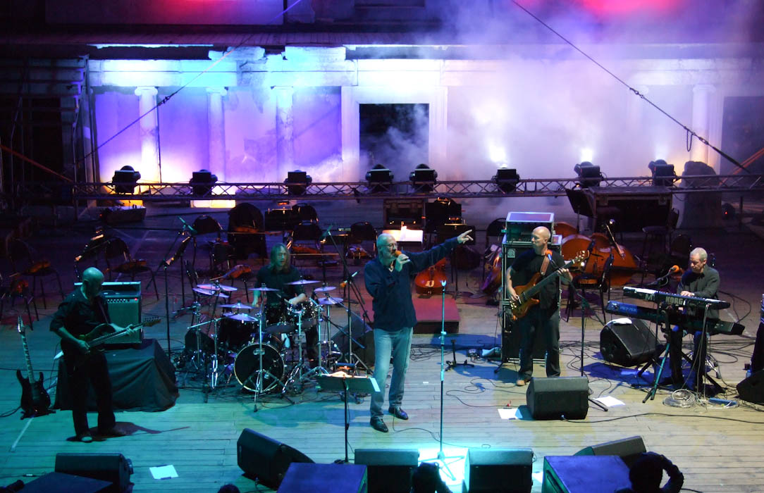 The British rock singer Fish with his band performing at Sounds of the Ages Fest 2012 at The Ancient Theater in Plovdiv.